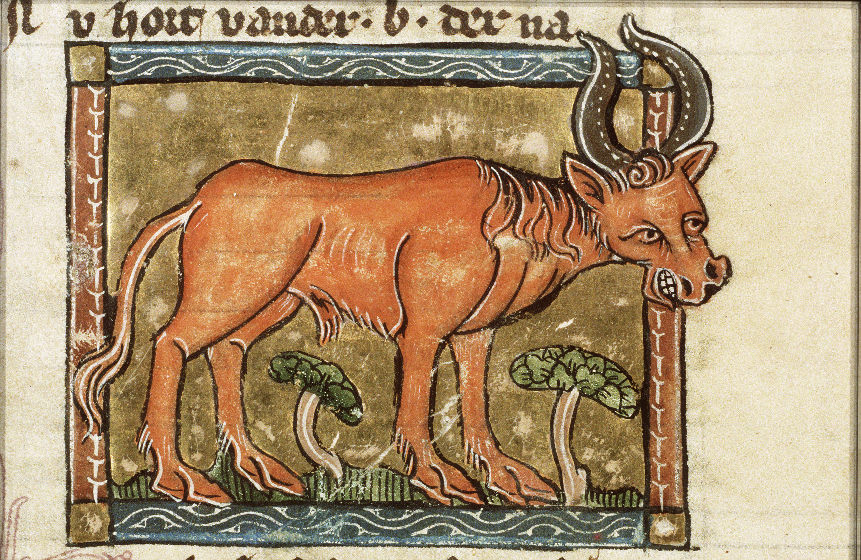 Bubalus (buffalo) - miniature from folio 047r from Der naturen bloeme (KB KA 16) by Jacob van Maerlant Topics depicted in this miniature Hoofed animals (buffalo) (25F24(BUFFALO)) This miniature is part of the righthand side folio 047r